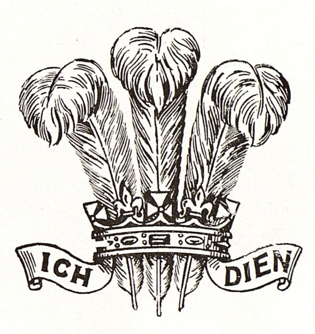 Prince of Wales coat of arms from Ahnfelt, Hilda, 1910